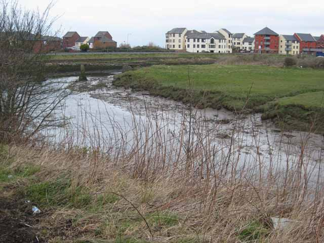 River Ellen at Maryport The new housing on Irish Street in the distance is characteristic of the extensive redevelopment of the seaward side of Maryport.